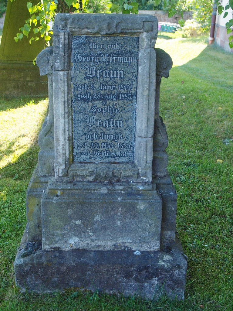 Gravestone of Georg Hermann Braun and his wife Sophie Braun, née Jungk in Petersberg, a district of Bad Hersfeld. Georg Hermann Braun was owner of a manor and member of the German Reichstag ("National Diet").